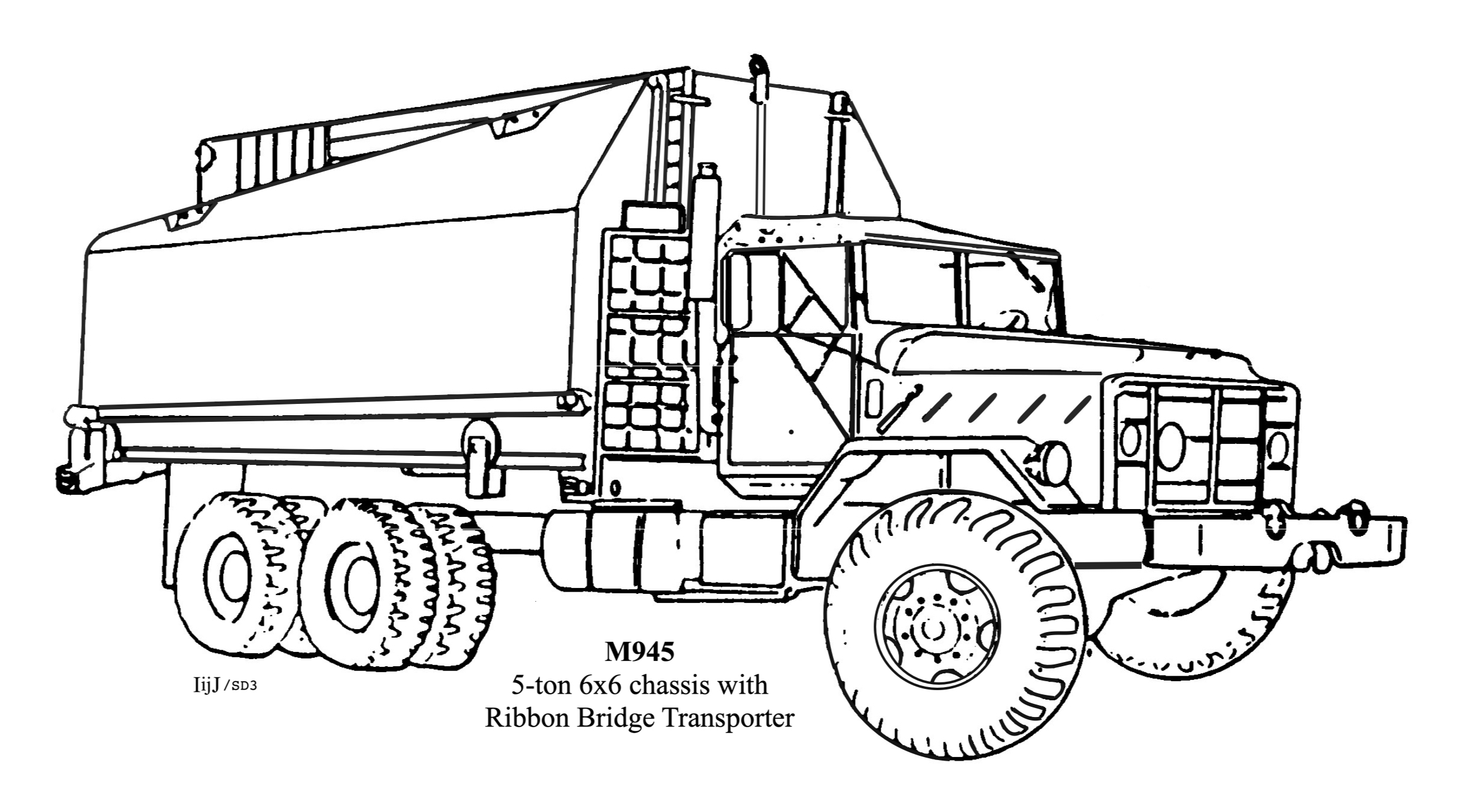 M945 5-ton 6x6 extra heavy-duty chassis-cab with an Improved Float Bridge (Ribbon Bridge) Bridge Transporter body carrying a folded ramp bay on maneuvers in the Republic of Korea in 1998.